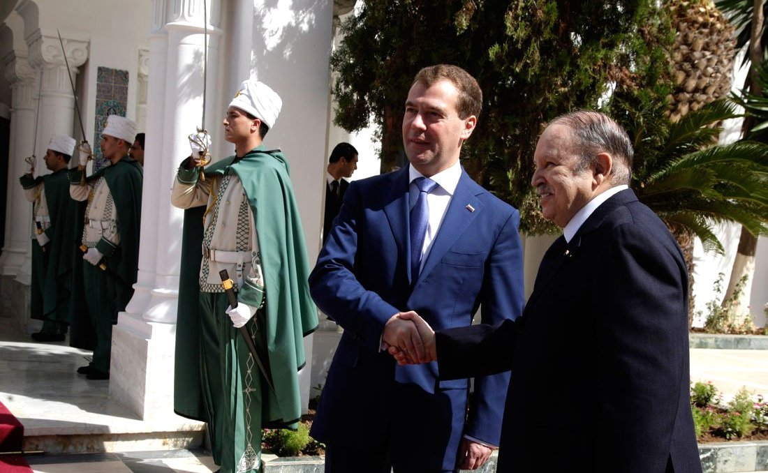 With President of Algeria Abdelaziz Bouteflika.